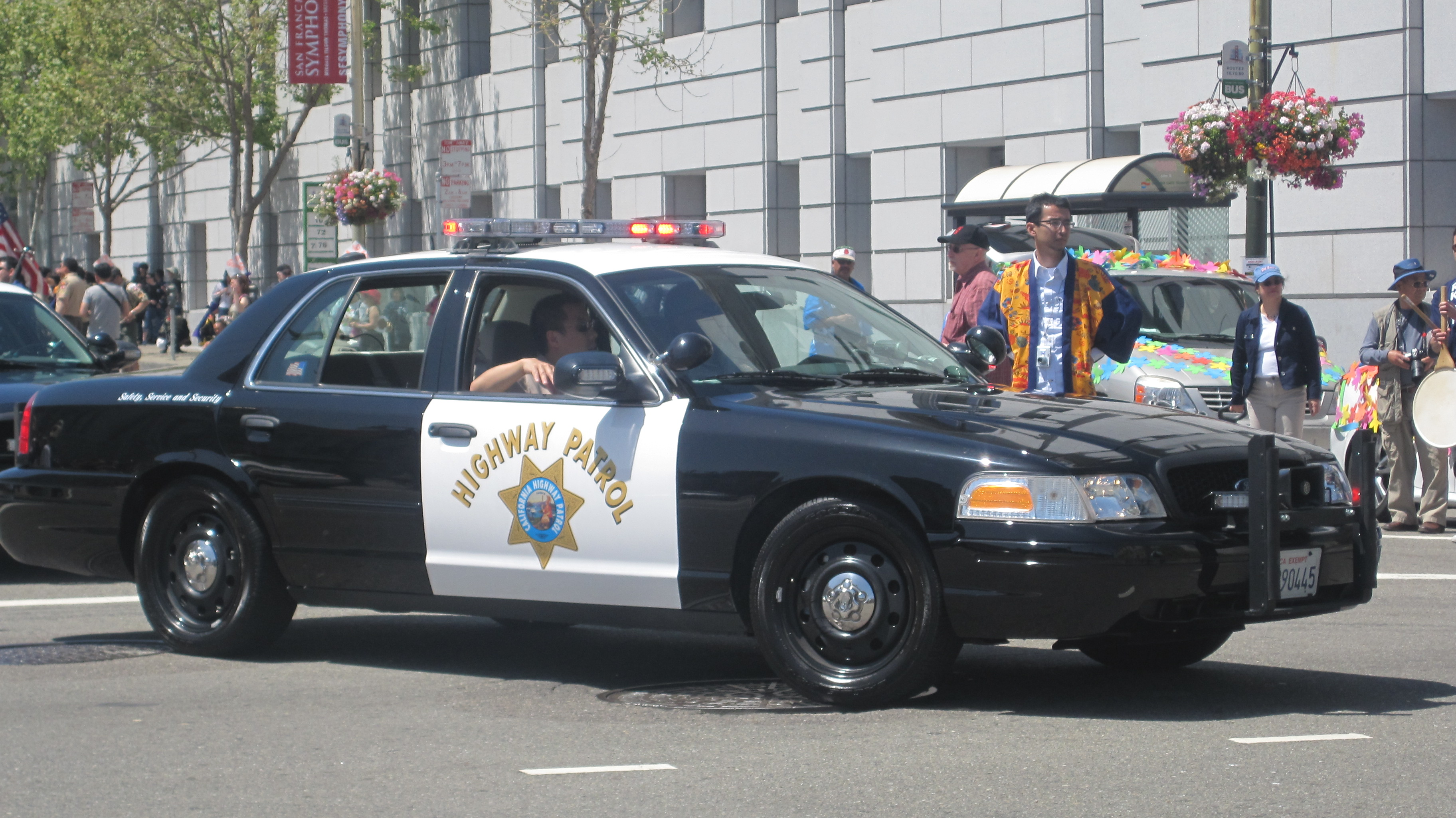 The Grand Parade of the 2010 Northern California Cherry Blossom Festival in San Francisco, California.